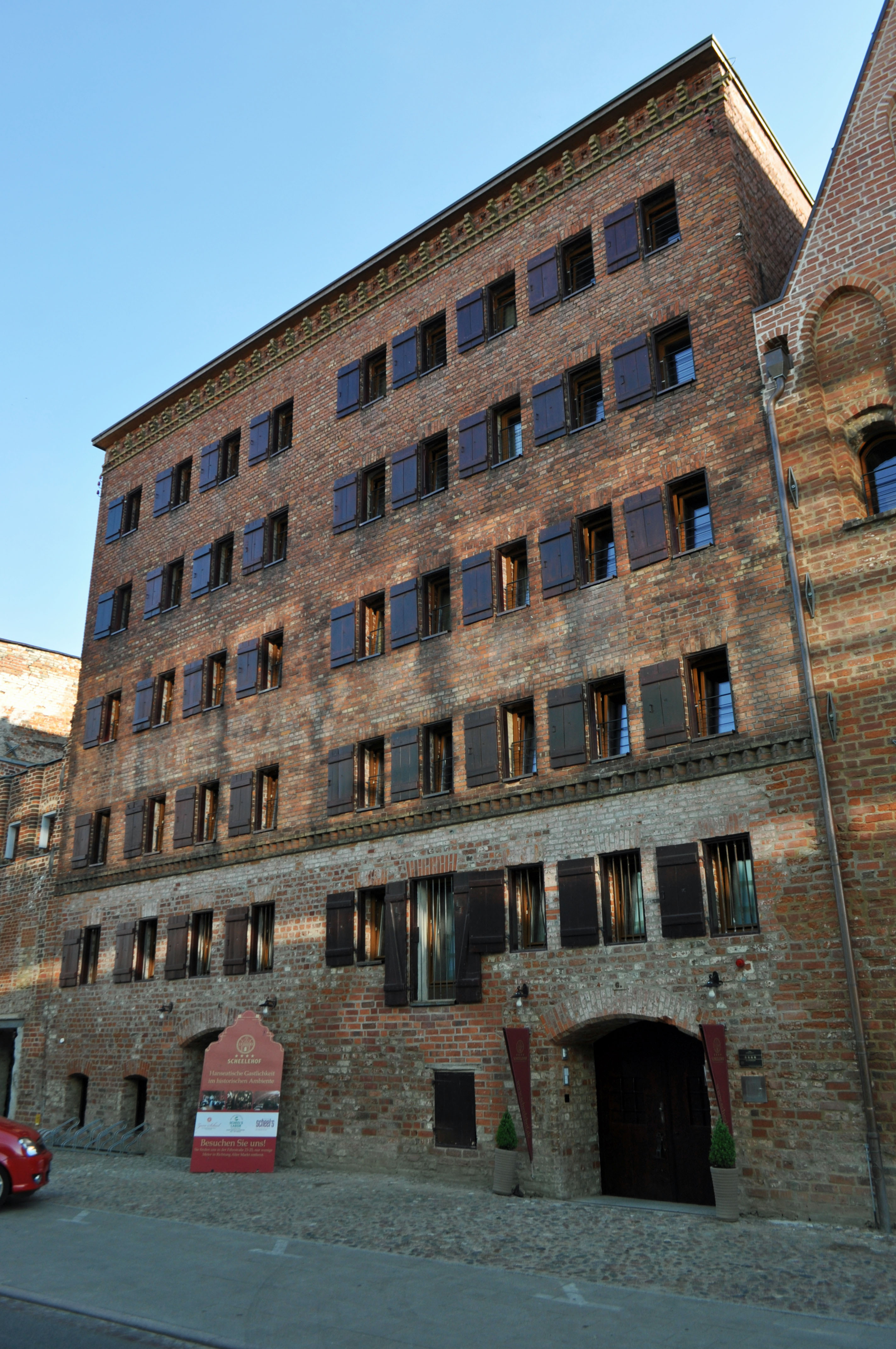 Stralsund, Fährwall 6 This is a photograph of an architectural monument.